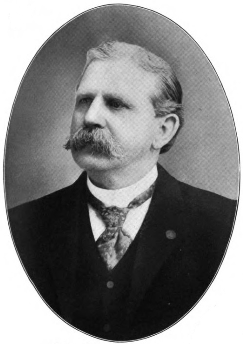 Thomas J. Hudson, Kansas Congressman